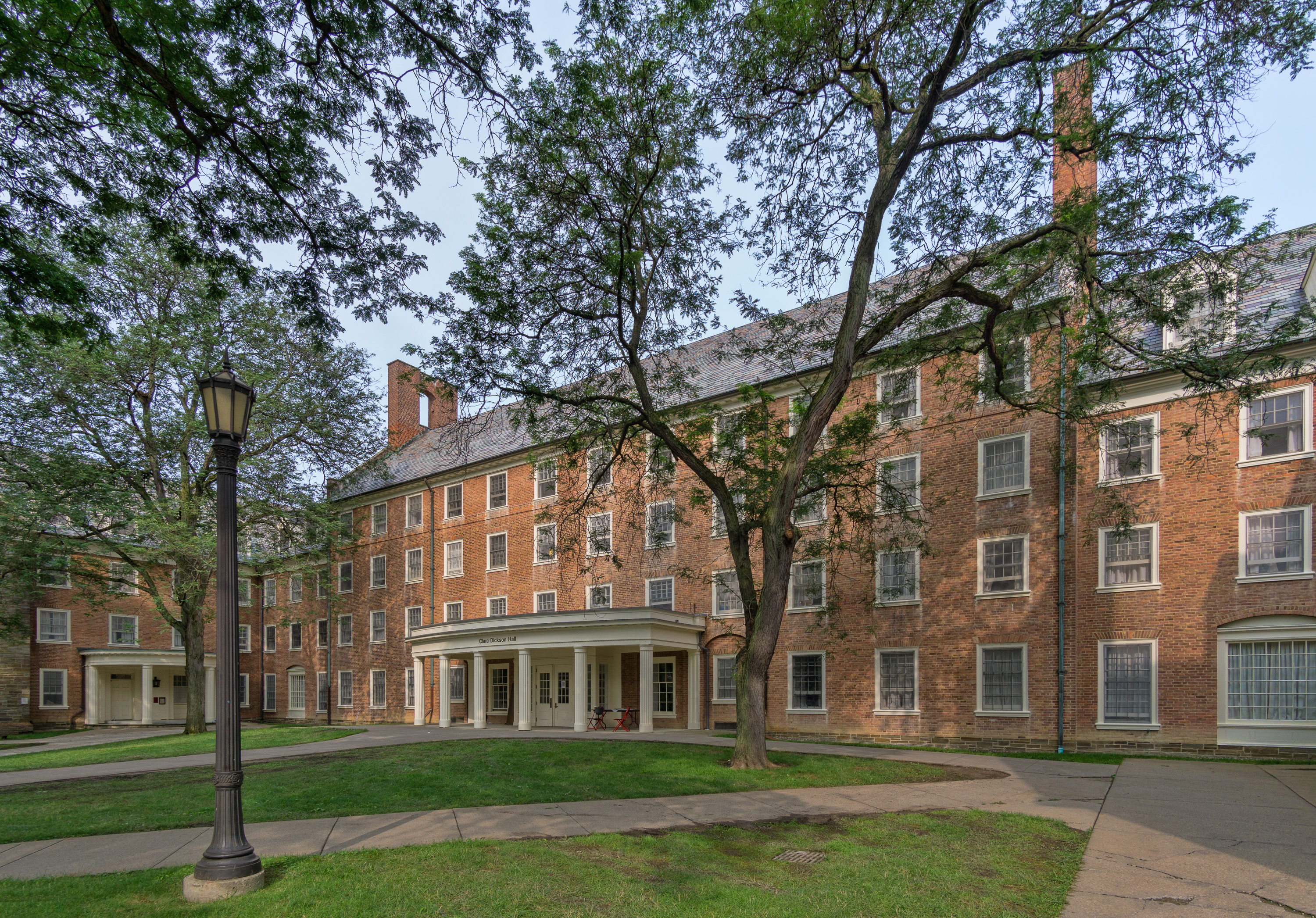 Clara Dickson Hall, Cornell University, Ithaca, NY